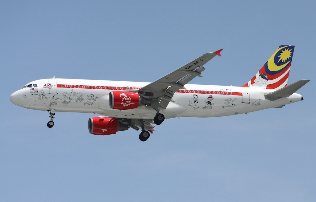 AirAsia's 9M-AFJ (Airbus A320-216) detailed with Lat's Kampung Boy characters; photo taken at Singapore's Changi Airport